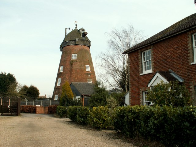 Former tower mill off Church Road, Tiptree, Essex, now converted into a private house